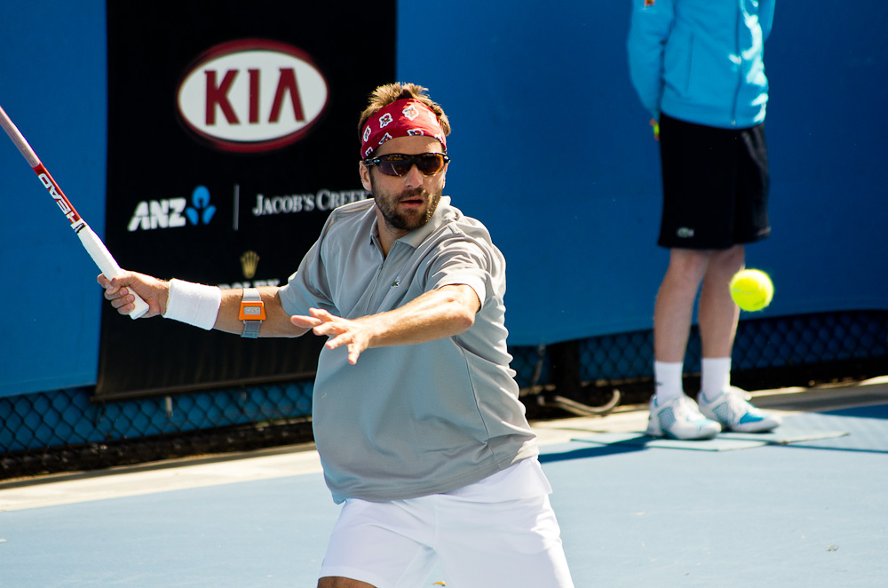 Experimenting with (and finding limitations of) budget Pentax 55-300mm f4-5.8 and K-5 for sports.